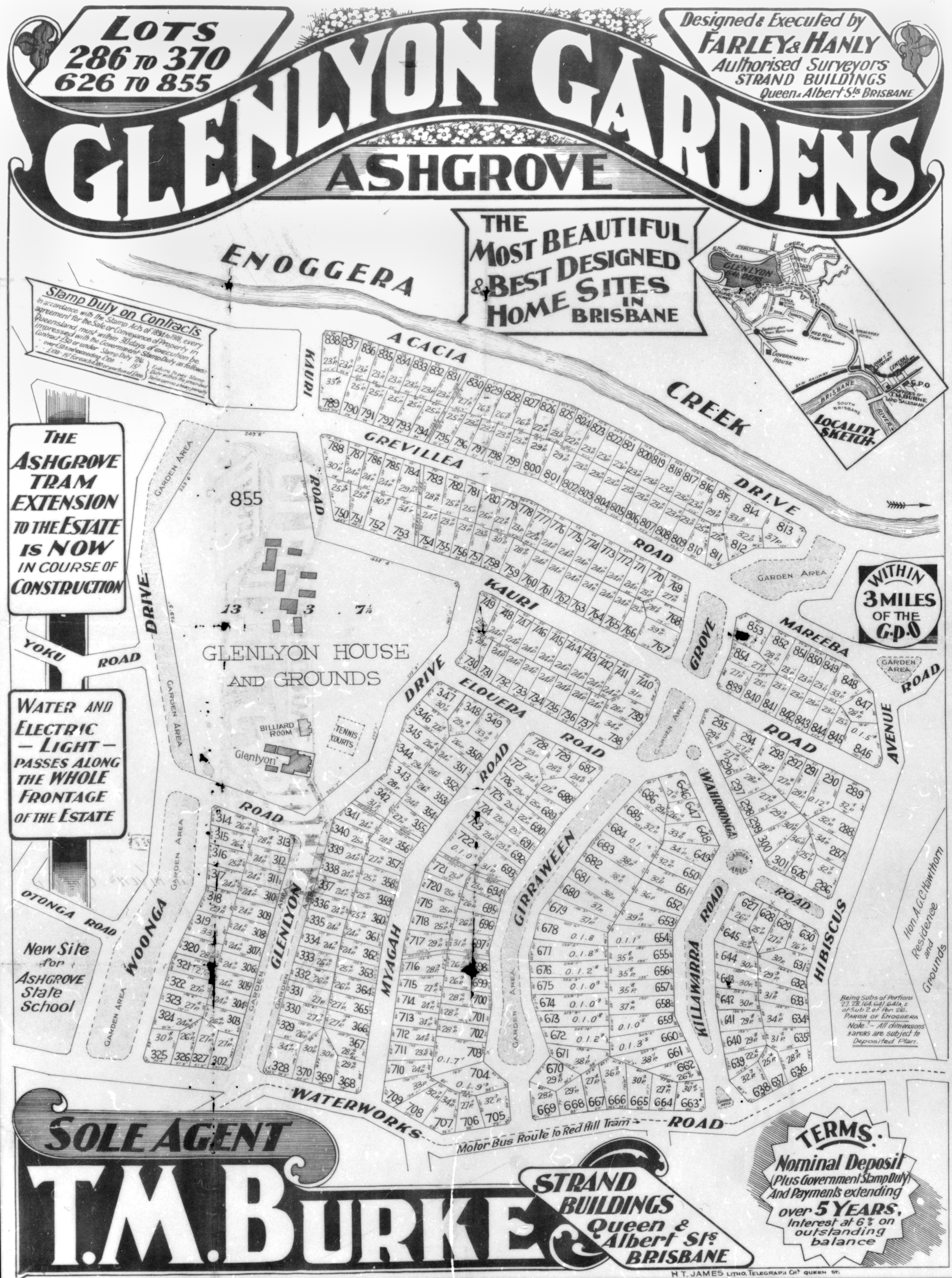 Glenlyon Gardens estate map showing allotments for sale through sole agent T. M. Burke